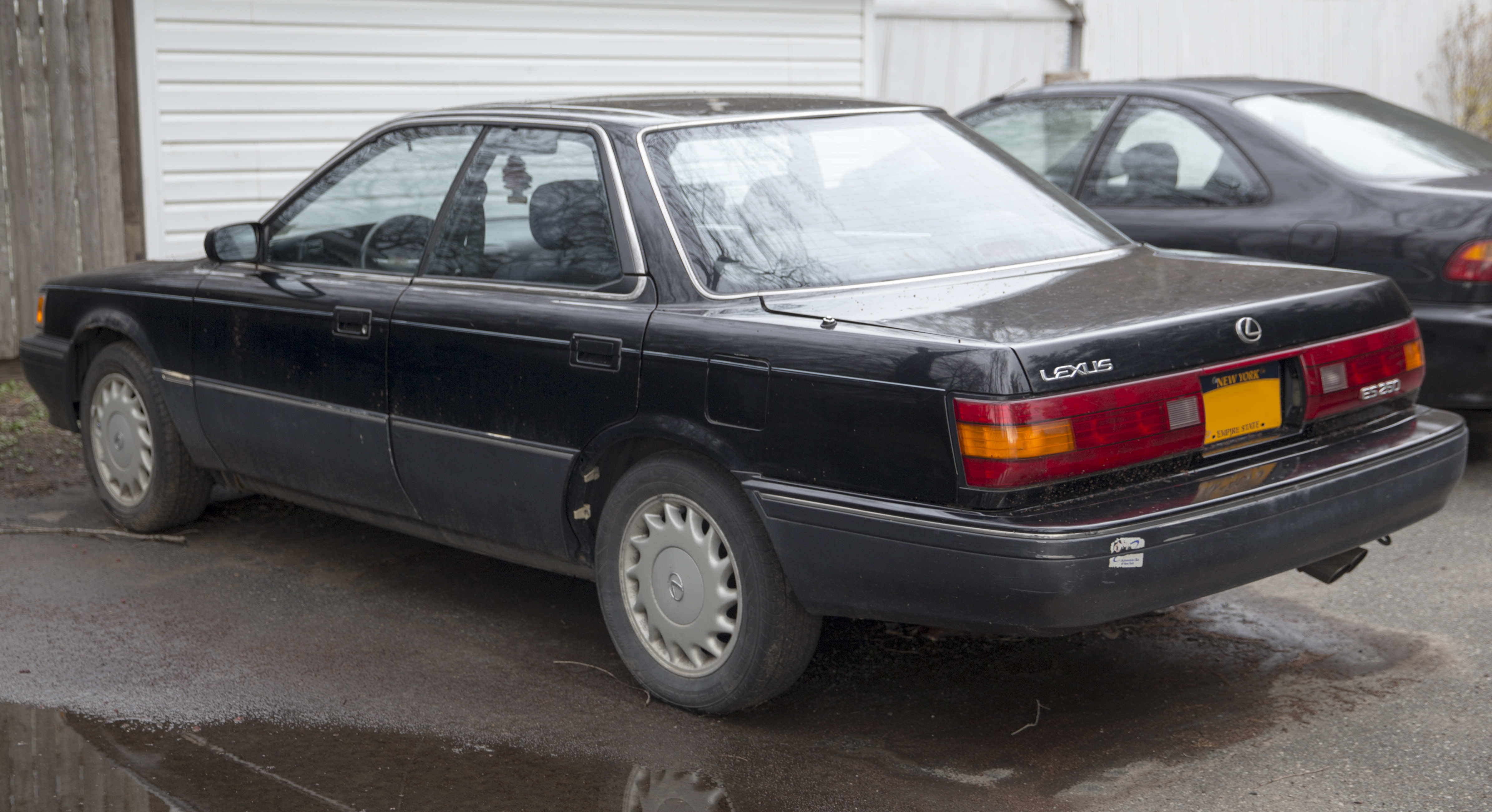 A 1990 Lexus ES250 in sort of okay condition. Mt. Ivy (Pomona) NY.